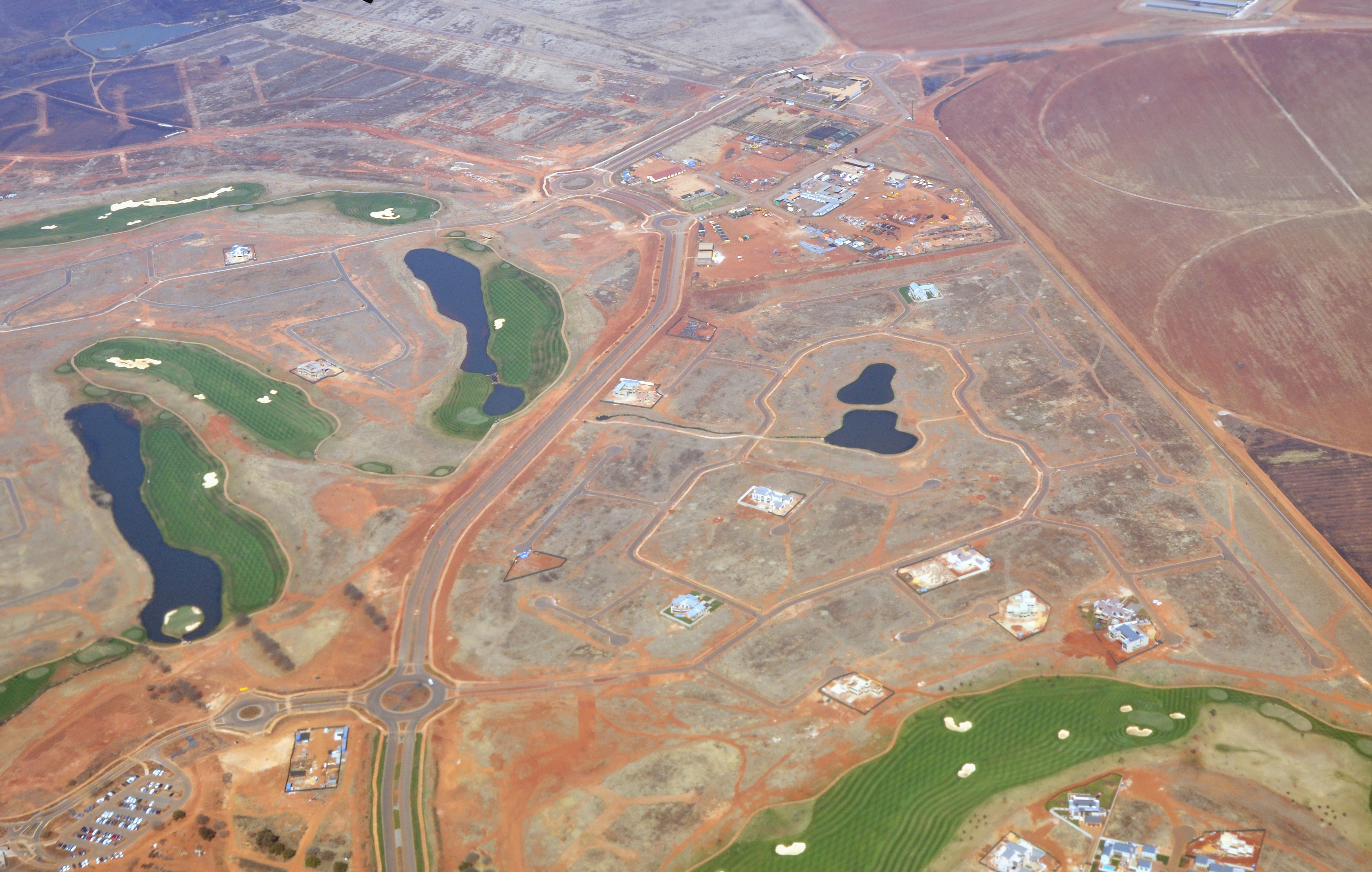 South Africa, Golf course near Witfontein